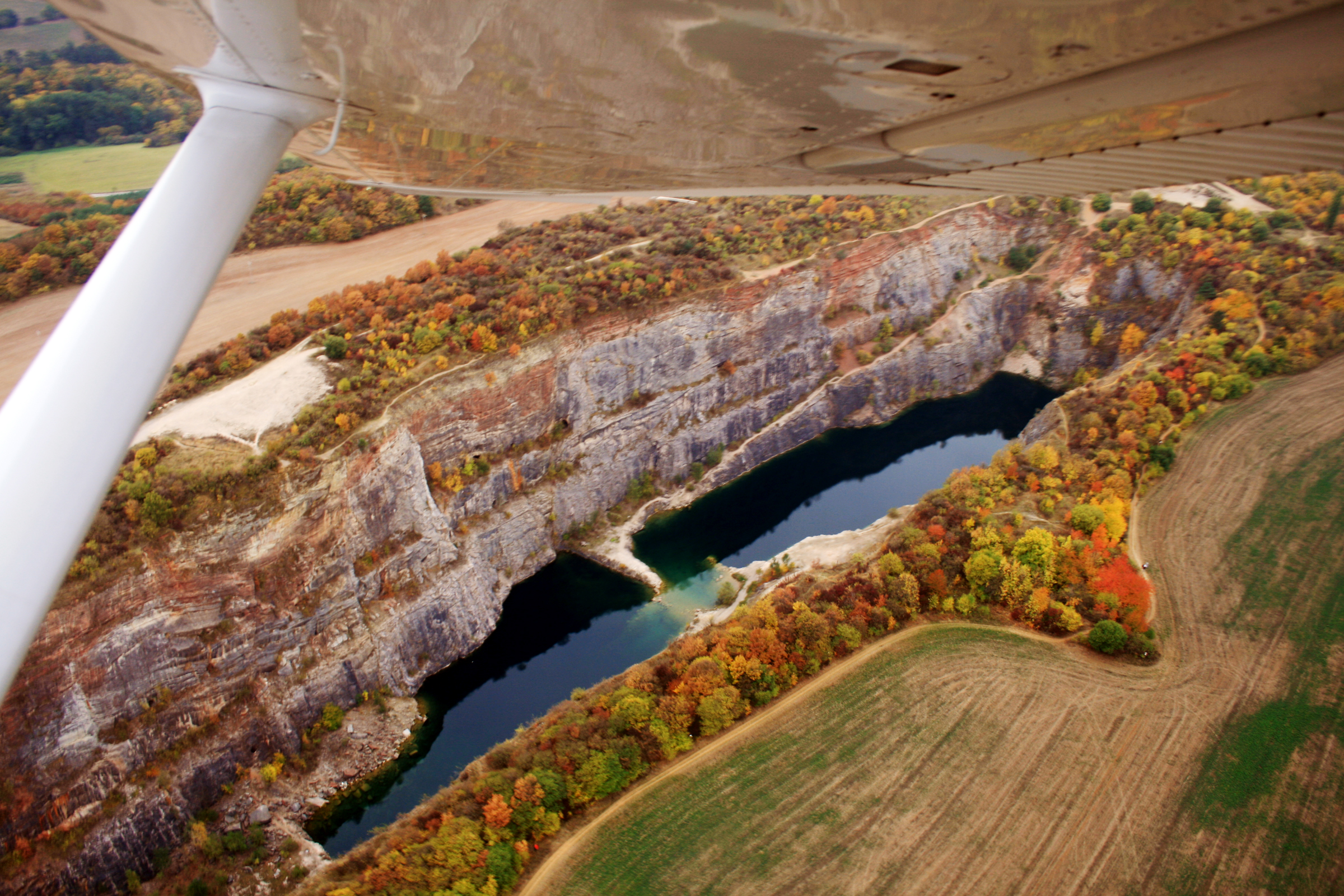 Air photo of Velká Amerika limestone mine, middle Bohemia, Czech Republic